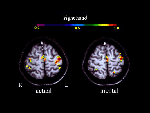 Dr. Jean Decety - University of Chicago